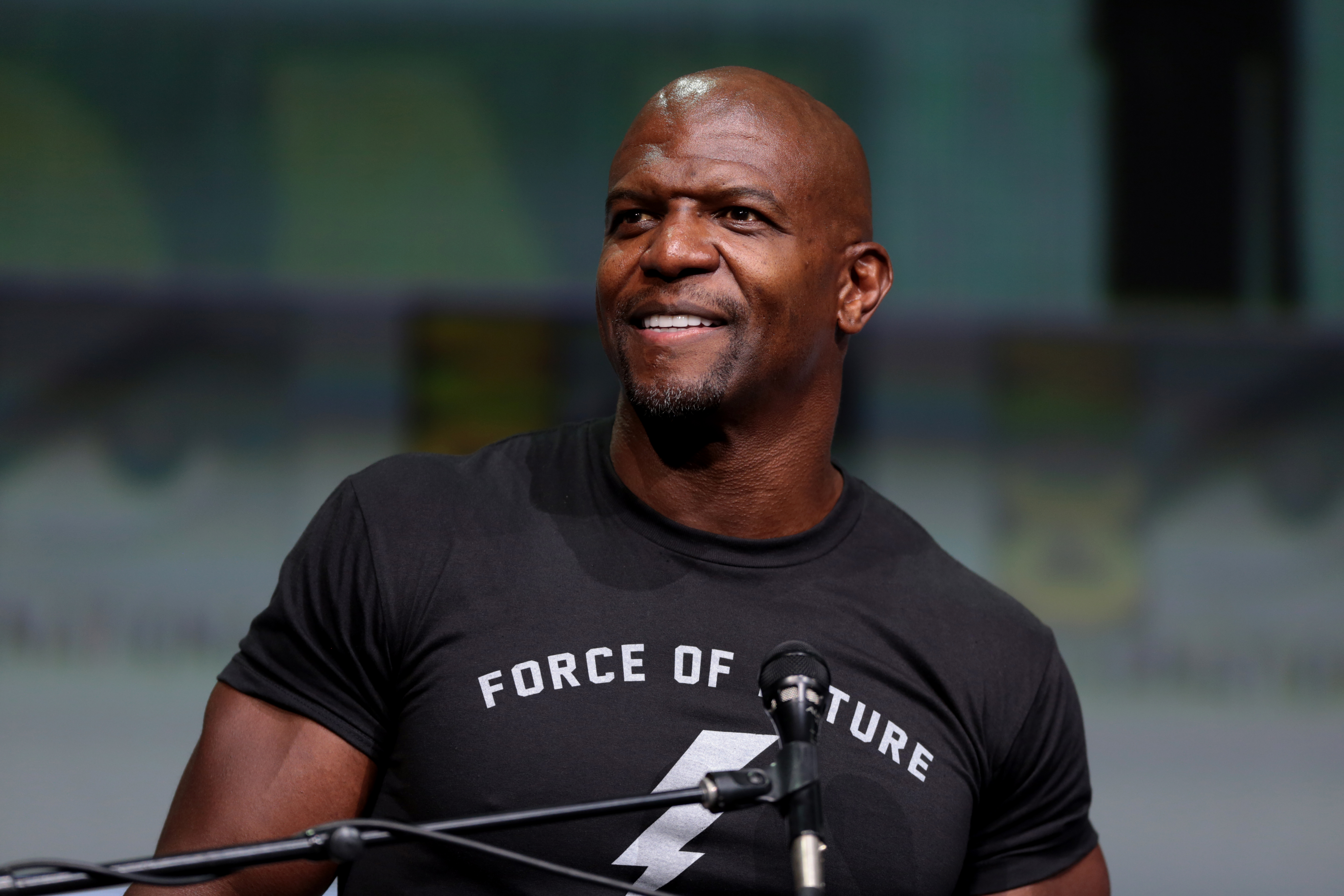 Terry Crews speaking at the 2017 San Diego Comic Con International, for "Death Note", at the San Diego Convention Center in San Diego, California.